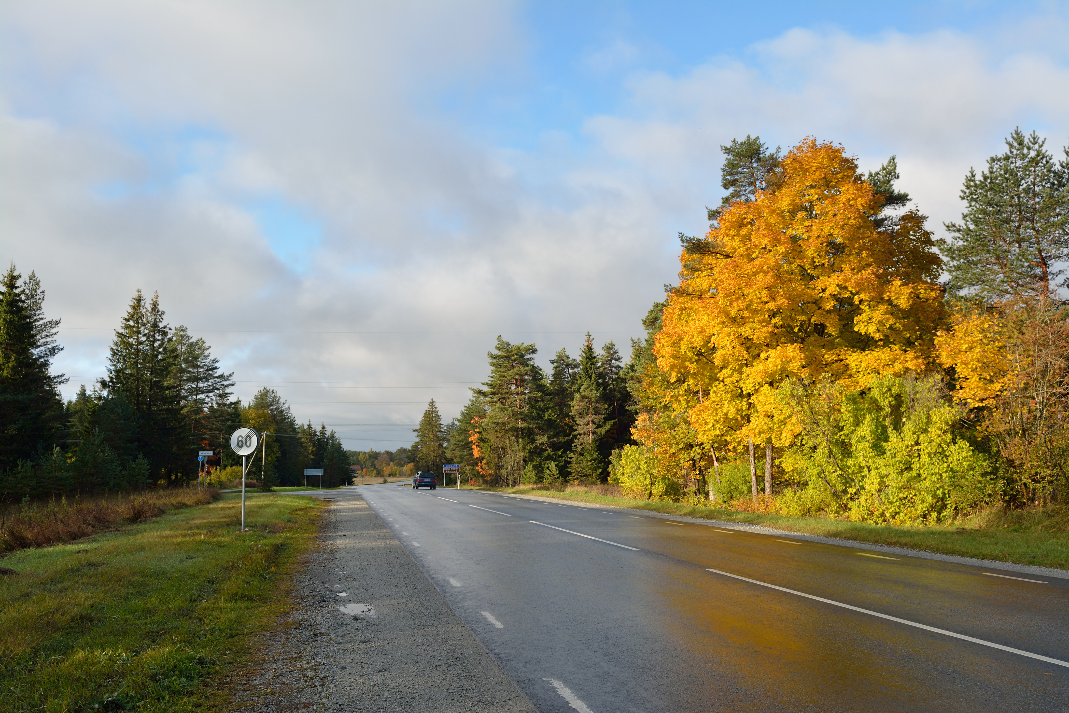 Keila-Haapsalu road on the border of Vasalemma borough and Lemmaru village.